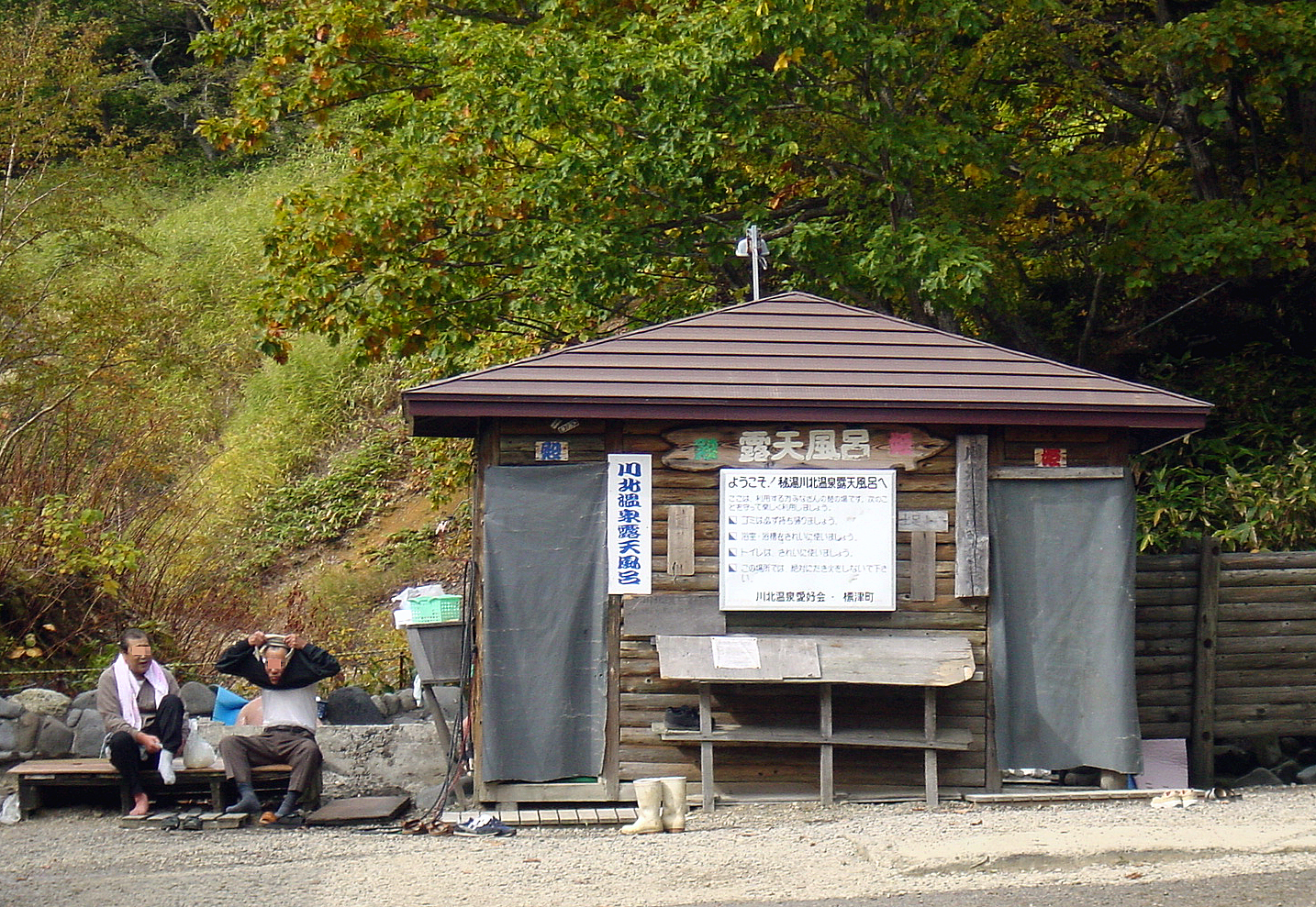 Kawakita Onsen in Shibetsu, Hokkaidō, Japan.